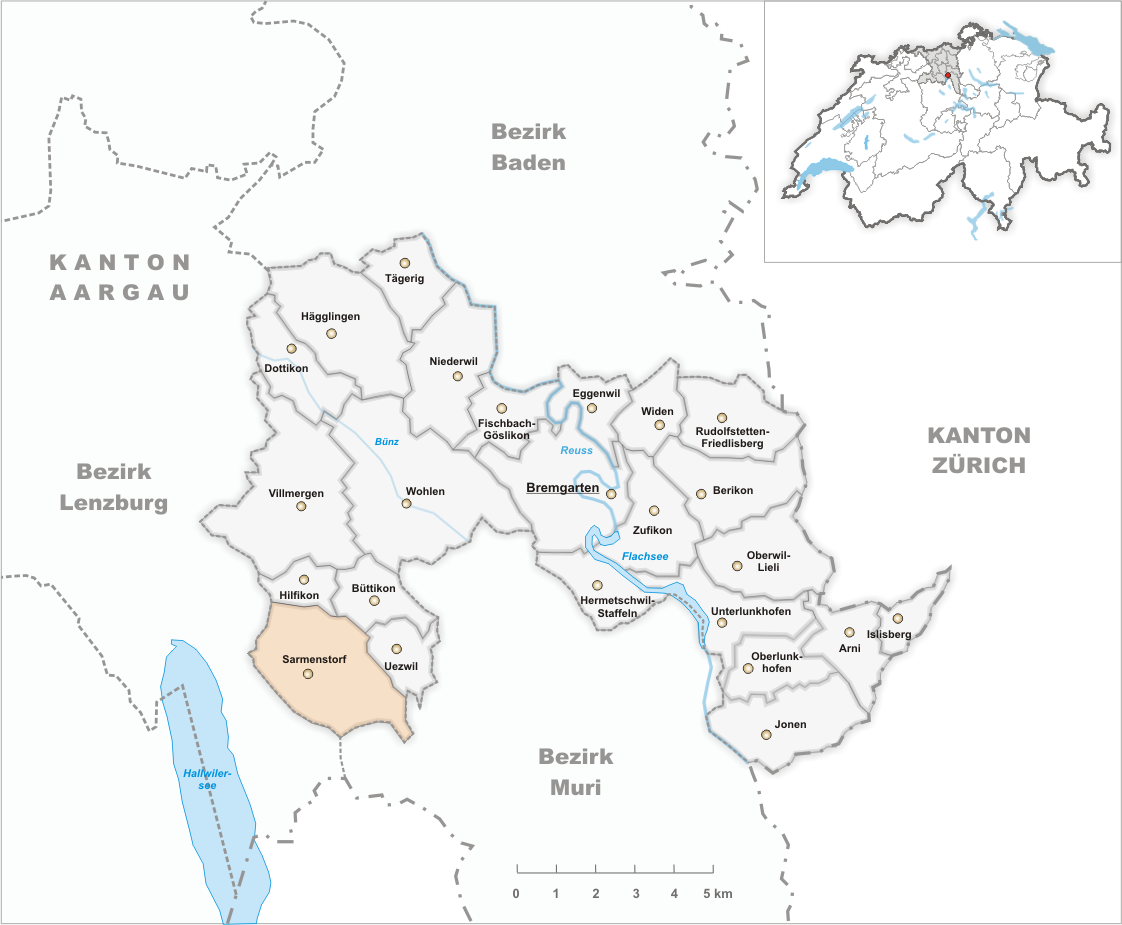 Municipality Sarmenstorf